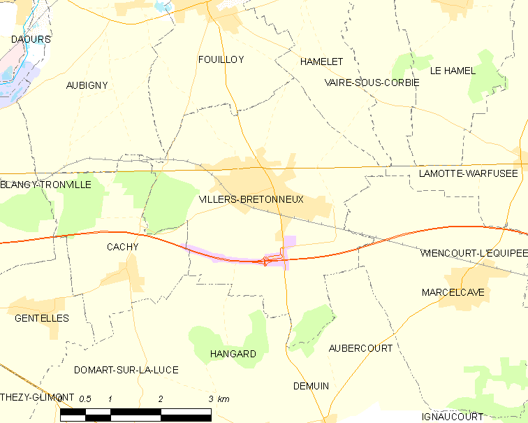 Map of French municipality Villers-Bretonneux